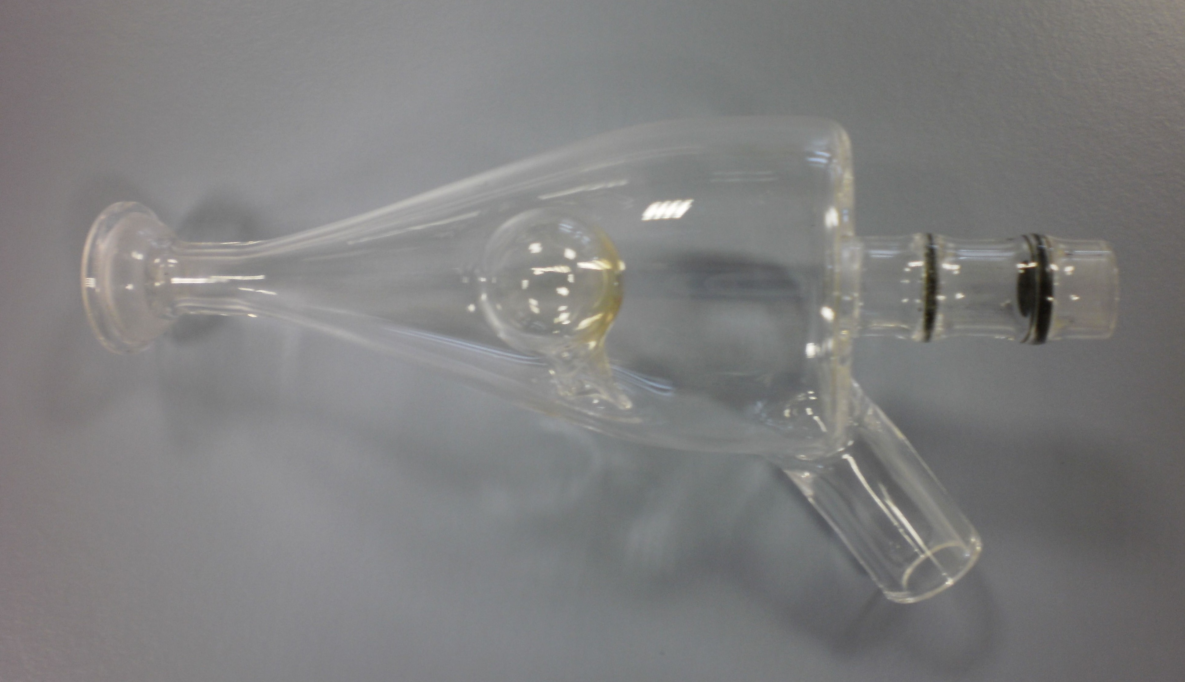 Single pass spray chamber with impact bead